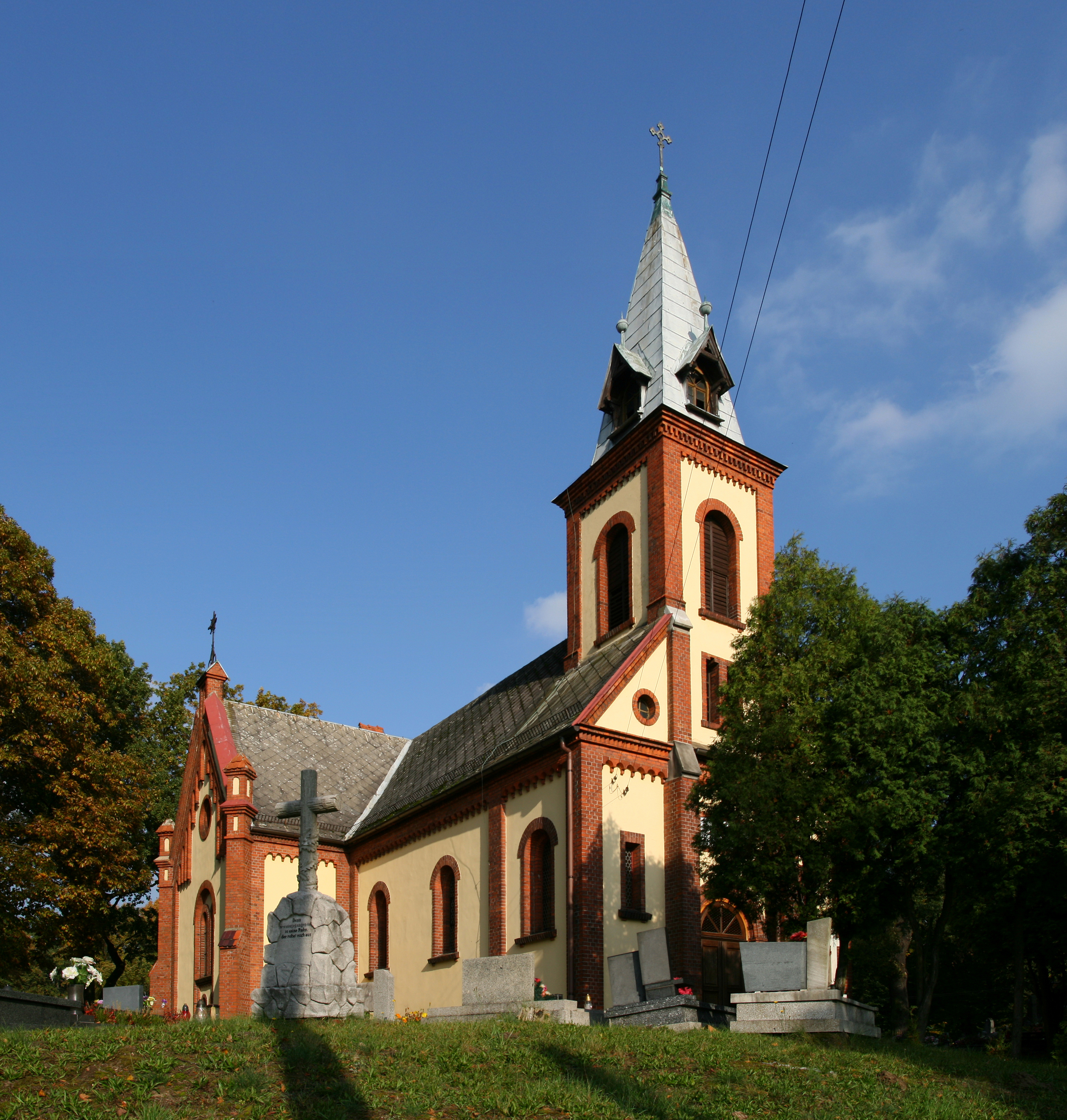 Church in Rudy (Poland).